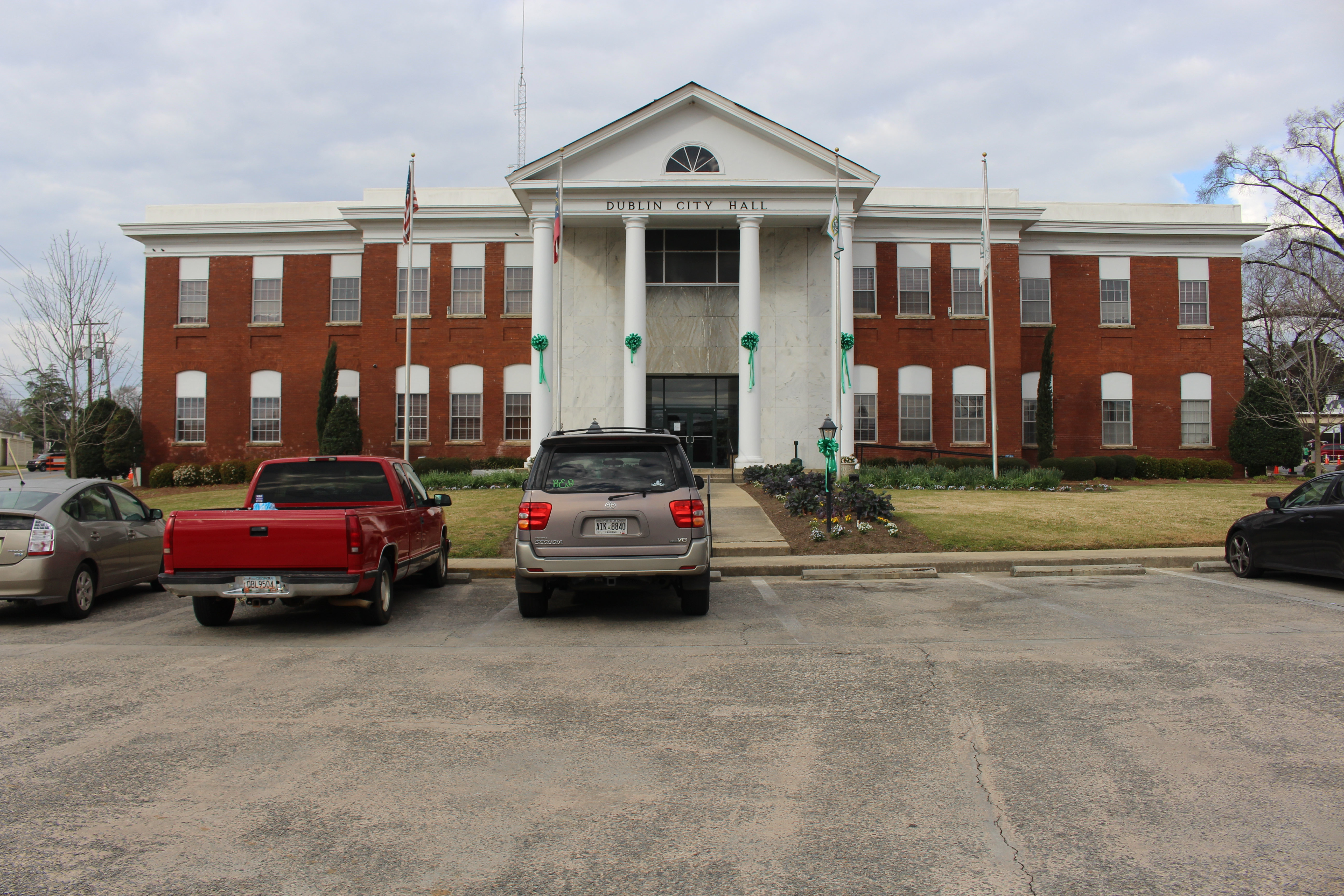 Dublin City Hall, Dublin, Laurens County, Georgia. St. Patrick's Day 2018